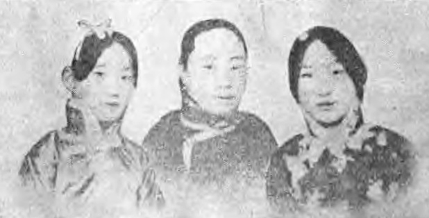 Three wife of Yuan Shikai, cropped fromFile:袁世凱之如夫人周妃議（即憶秦樓）閔氏翠媛三人合影.jpg